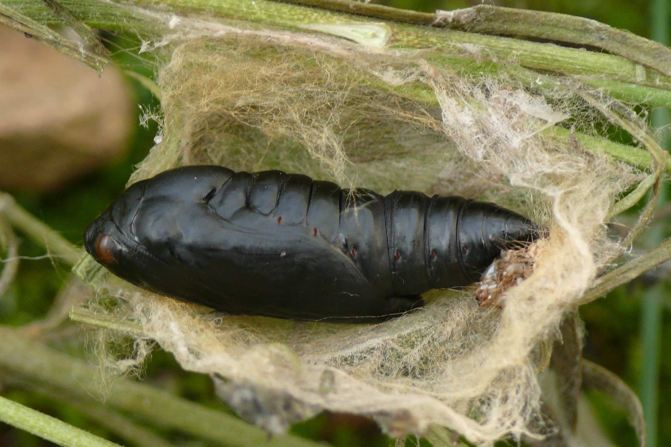 Opened cocoon with pupa of the Silver Y (Autographa gamma